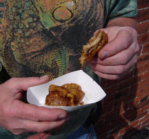 Tiro Testicle Festival (veal)2007. Have a ball. Photo by Mike Sharp.